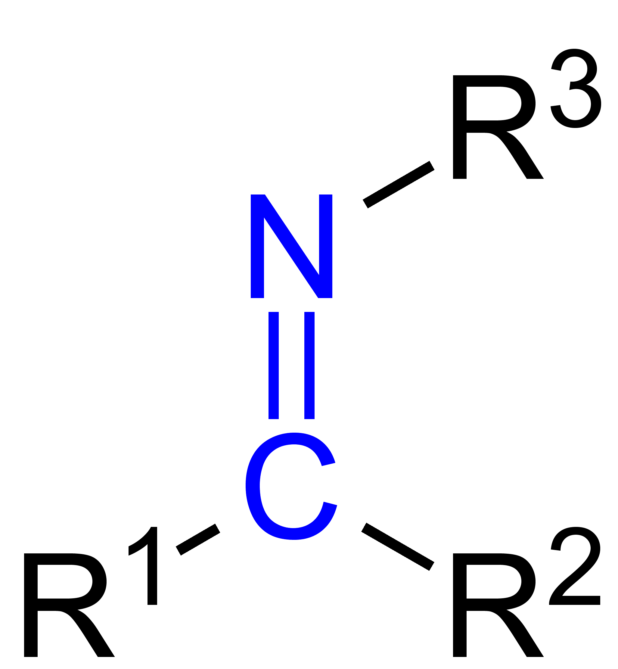 Imino_Group